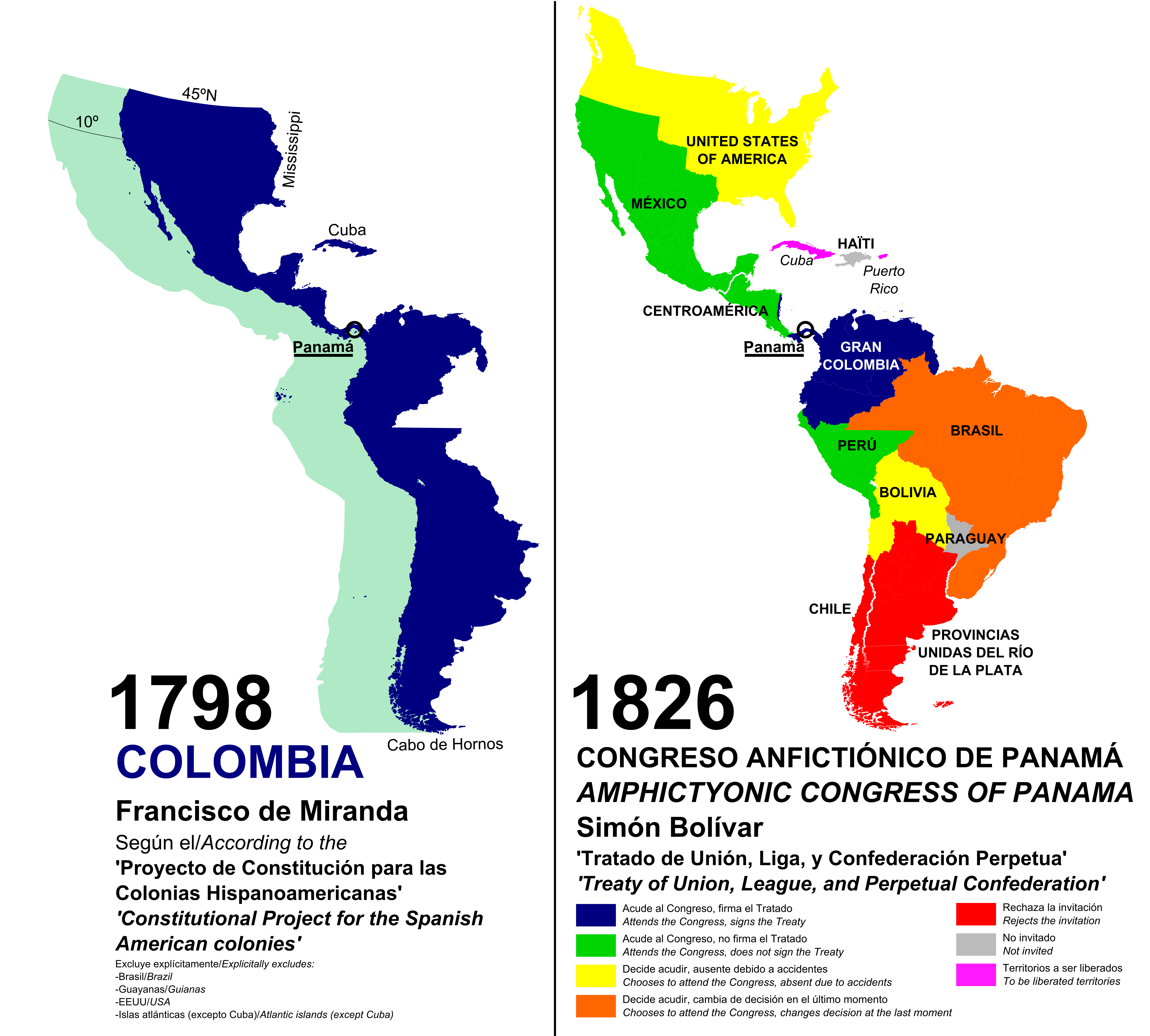 Colombia, according to Francisco de Miranda in his 1798 Constitutional Project, and nations involved in the Amphictyonic Congress of Panama, 1826